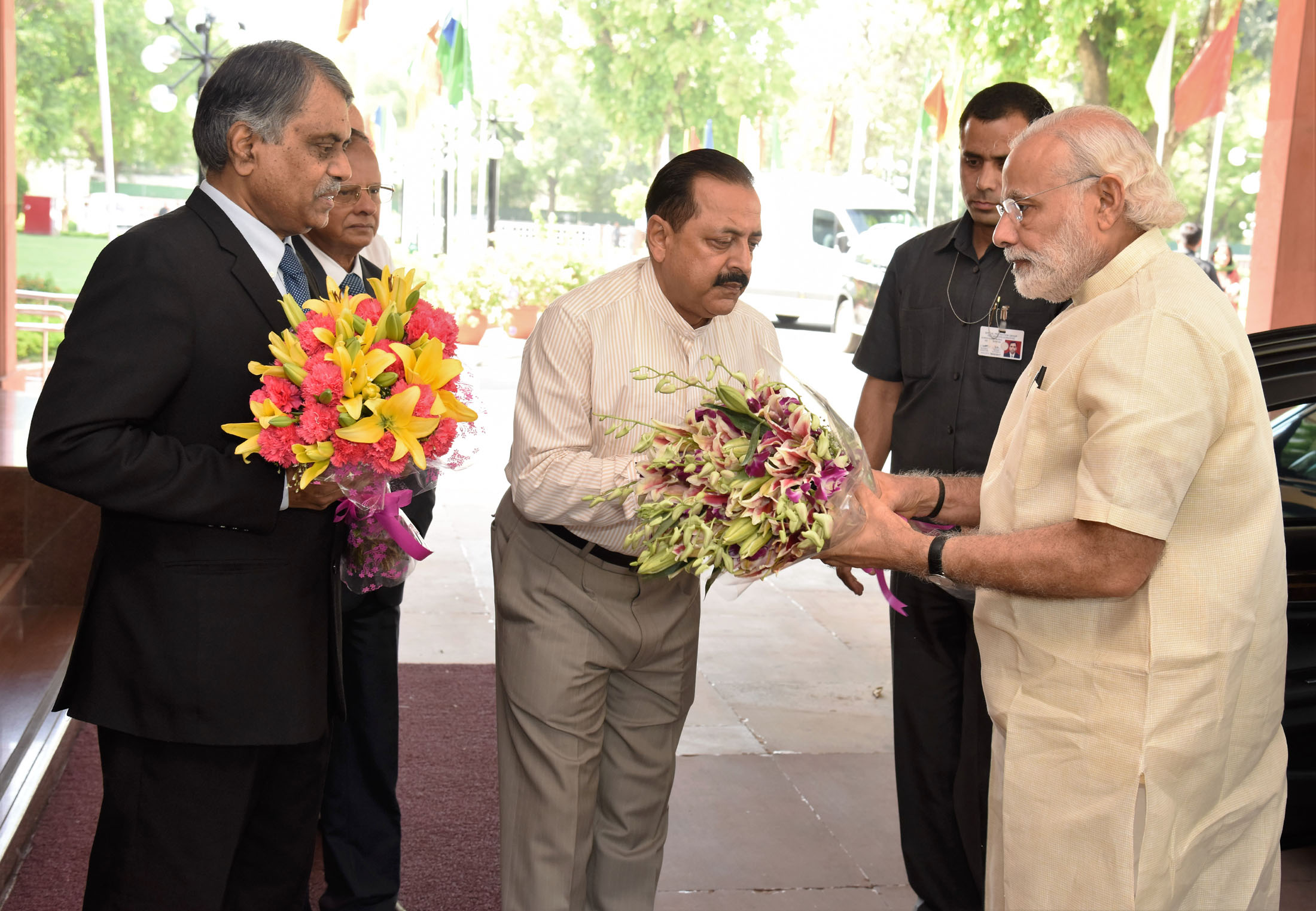 The Prime Minister, Shri Narendra Modi being welcomed by the Minister of State for Development of North Eastern Region (I/C), Prime Minister’s Office, Personnel, Public Grievances&Pensions, Department of Atomic Energy, Department of Space, Dr. Jitendra Singh, on his arrival at the Civil Services Day function, in New Delhi on April 21, 2016.The Cabinet Secretary, Shri Pradeep Kumar Sinha and the Additional Principal Secretary to the Prime Minister, Dr. P.K. Mishra are also seen.